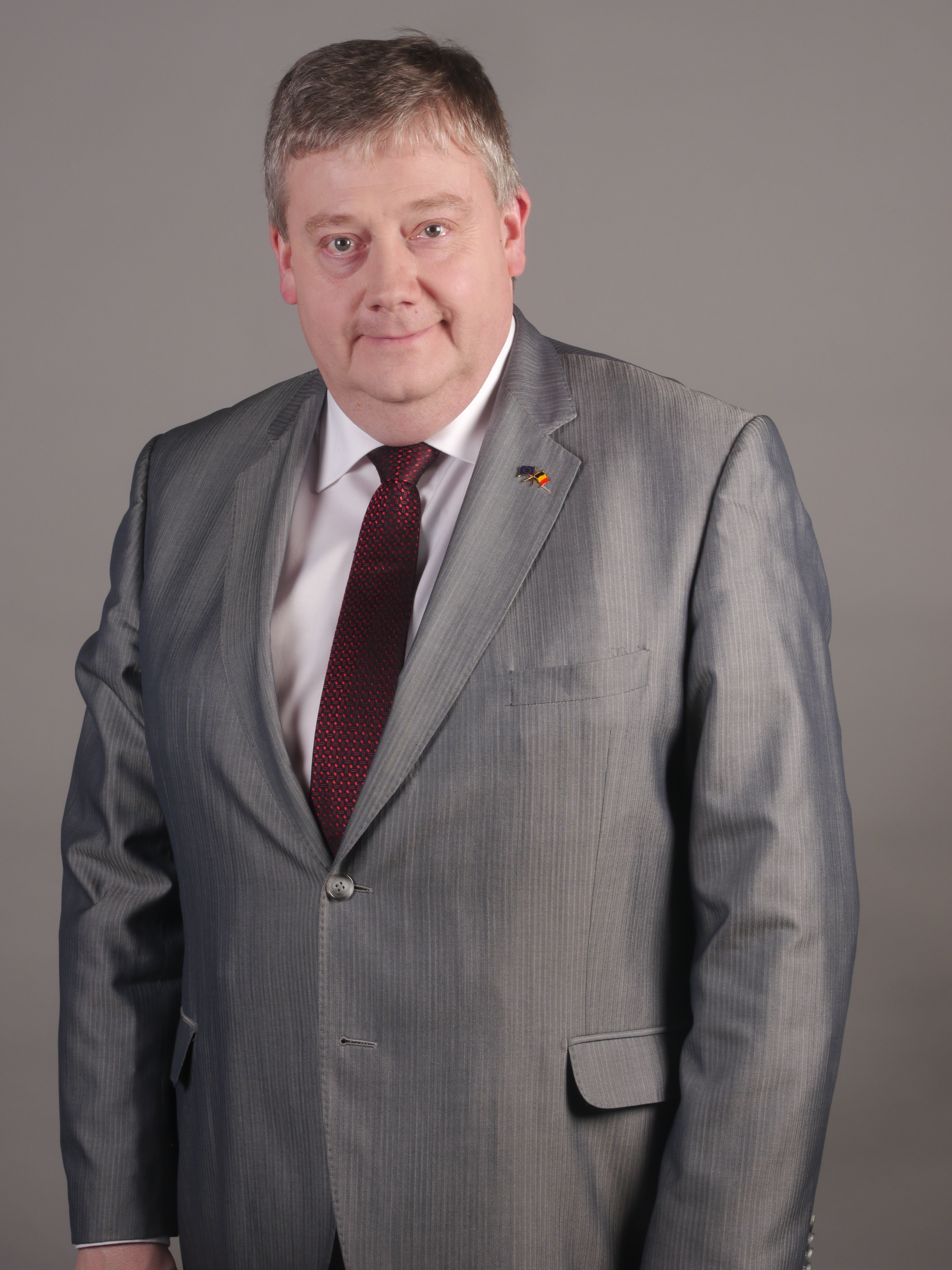 Photograph taken during Wiki Loves Parliament in february 2014 in European Parliament of Strasbourg.